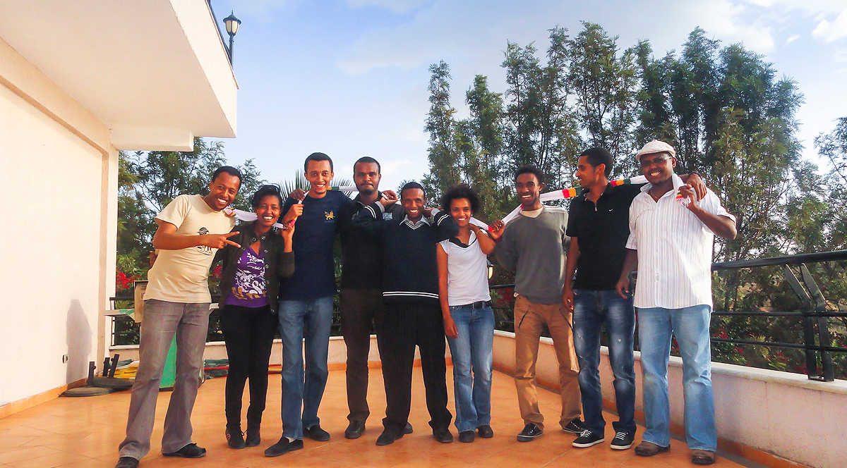 The founding members of Zone9 blogging collective. This photo was taken right after they have participated digital security training in Ethiopia